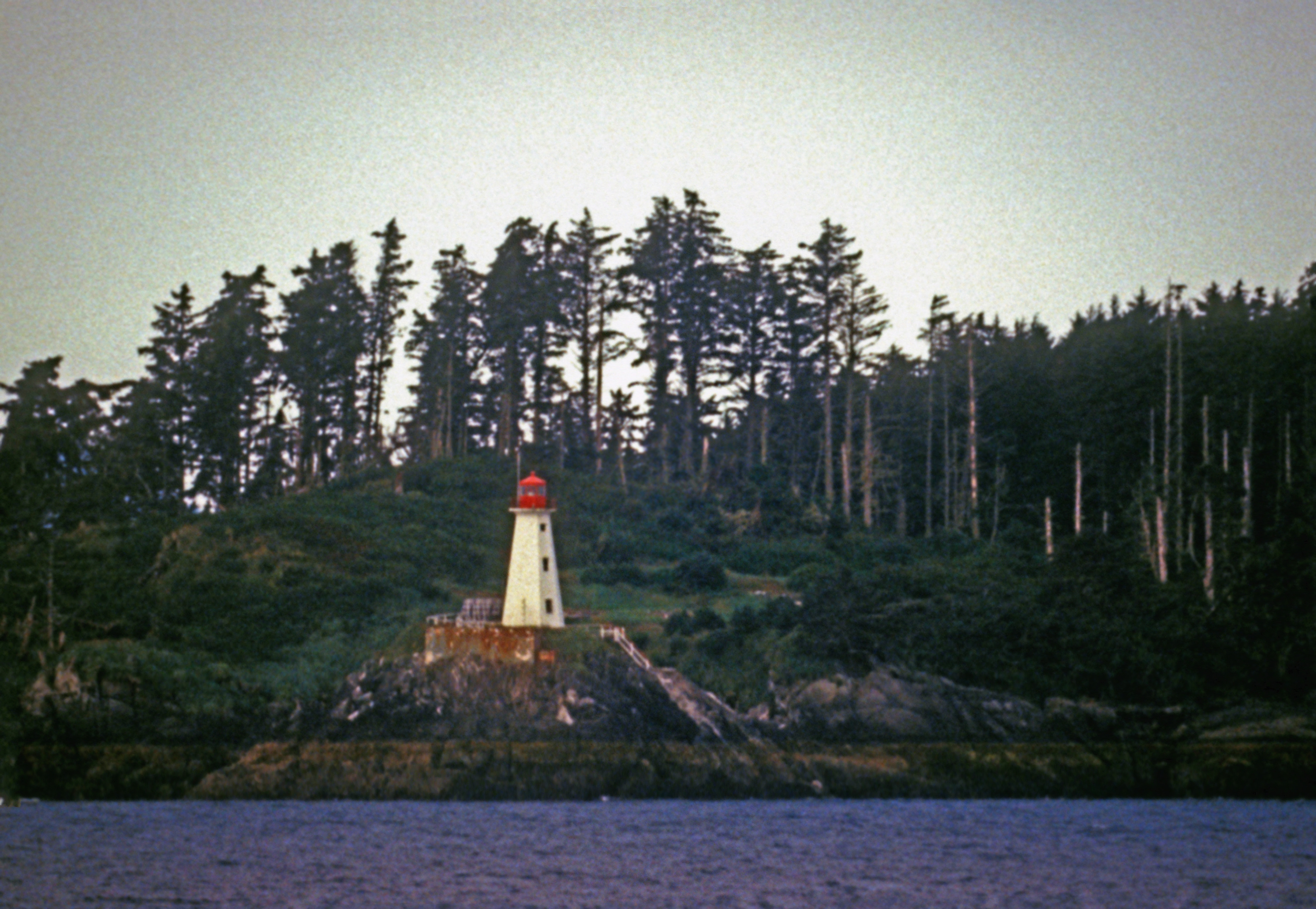 LUCY ISLAND LIGHTHOUSE NEAR PRINCE RUPERT ESTABLISHED IN 1907; MARKS THE START OF THE CHANNEL INTO PRINCE RUPERT